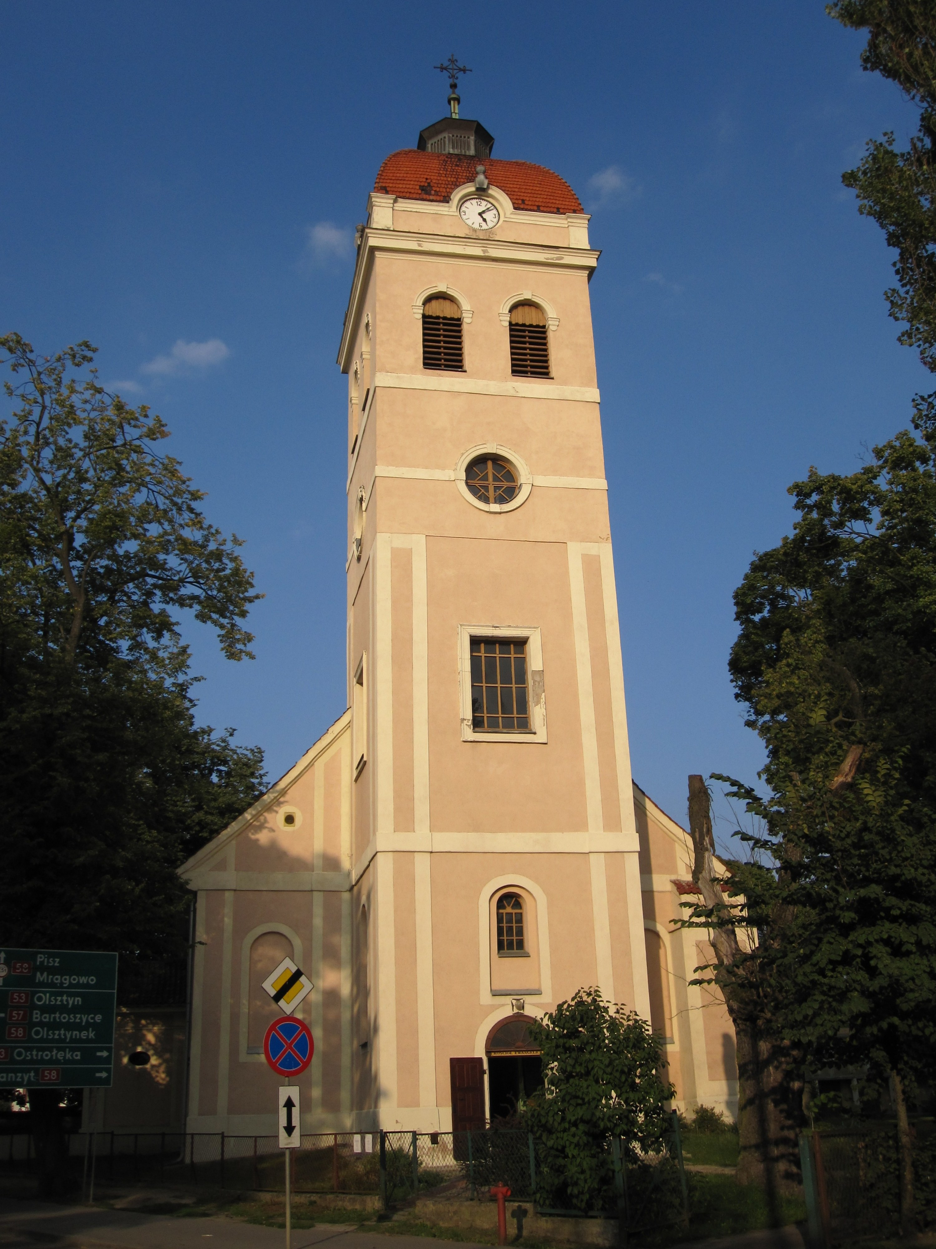 Evangelical church in Szczytno